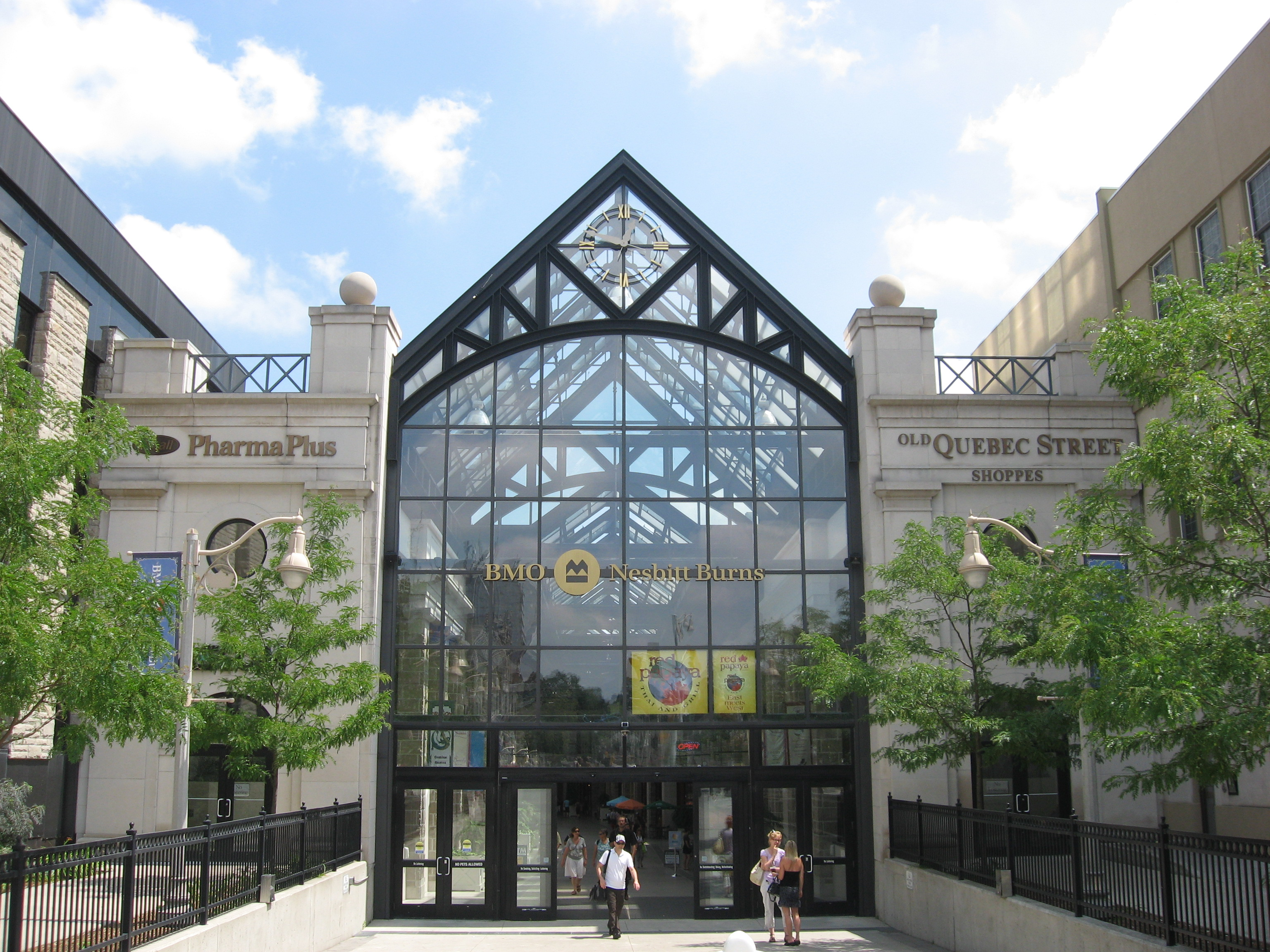 A picture of the front of the Old Quebec Street Mall.